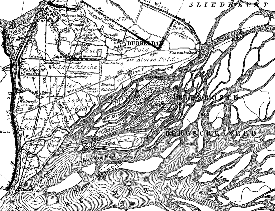 Detail from the map for the (former) municipality of Dubbeldam, The Netherlands, showing the project trajectory of the Nieuwe Merwede ship canal (constructed in 1870). Original map is part of the following publication: Kuyper, J. (1870). Gemeente Atlas Van Nederland. Leeuwarden: Suringar.